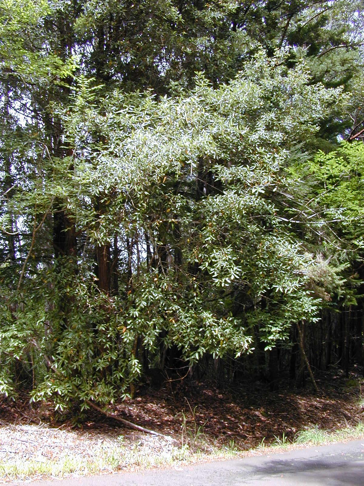 Syncarpia glomulifera (habit). Location: Maui, Makawao Forest Reserve